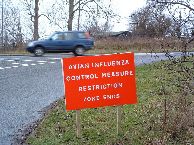 Avian Influenza ( Bird Flu ) Sign. Avian influenza (bird flu)sign at the junction of the A140 and the B1078. This has become the exit of the restricted zone more info other side of the sign see 338394